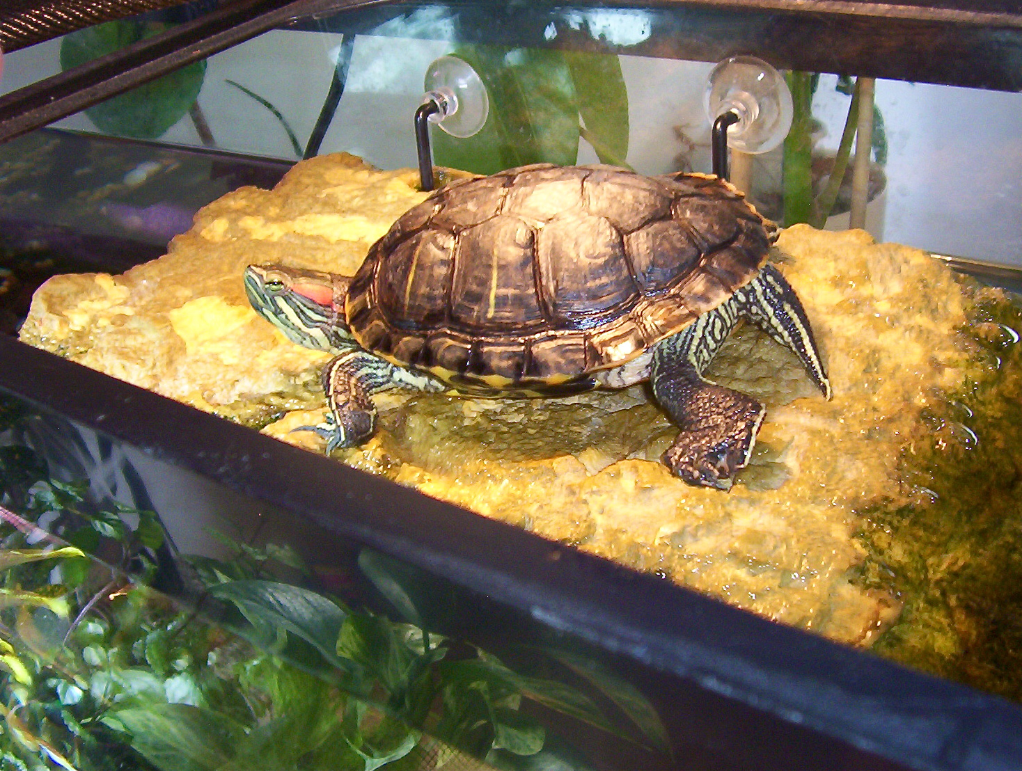 Description=